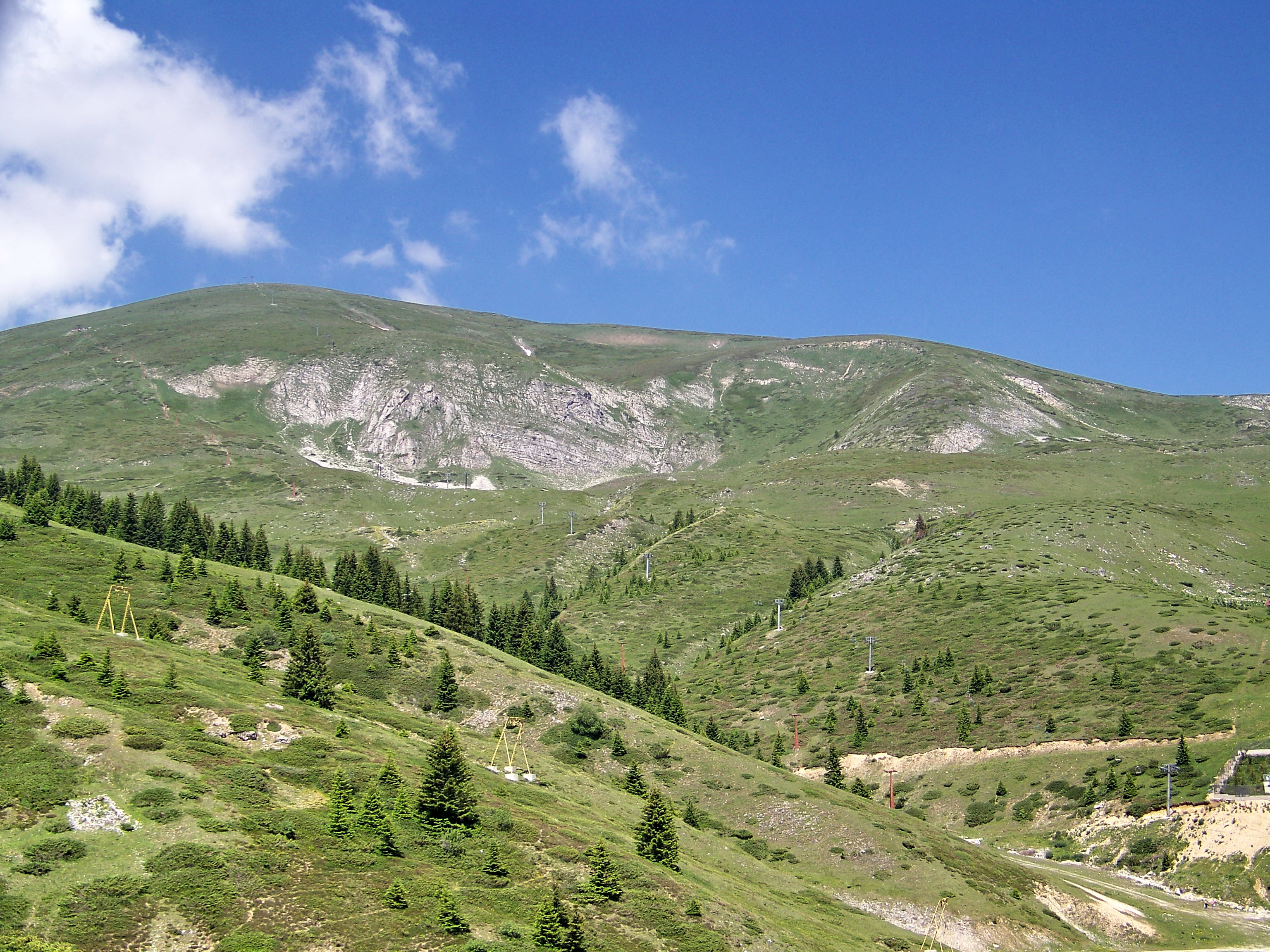 Ceripasina hill on Popova Shapka Ski Resort. Церипашина на Попова Шапка